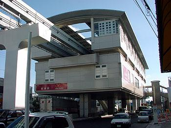 Shuri Station of Okinawa monorail